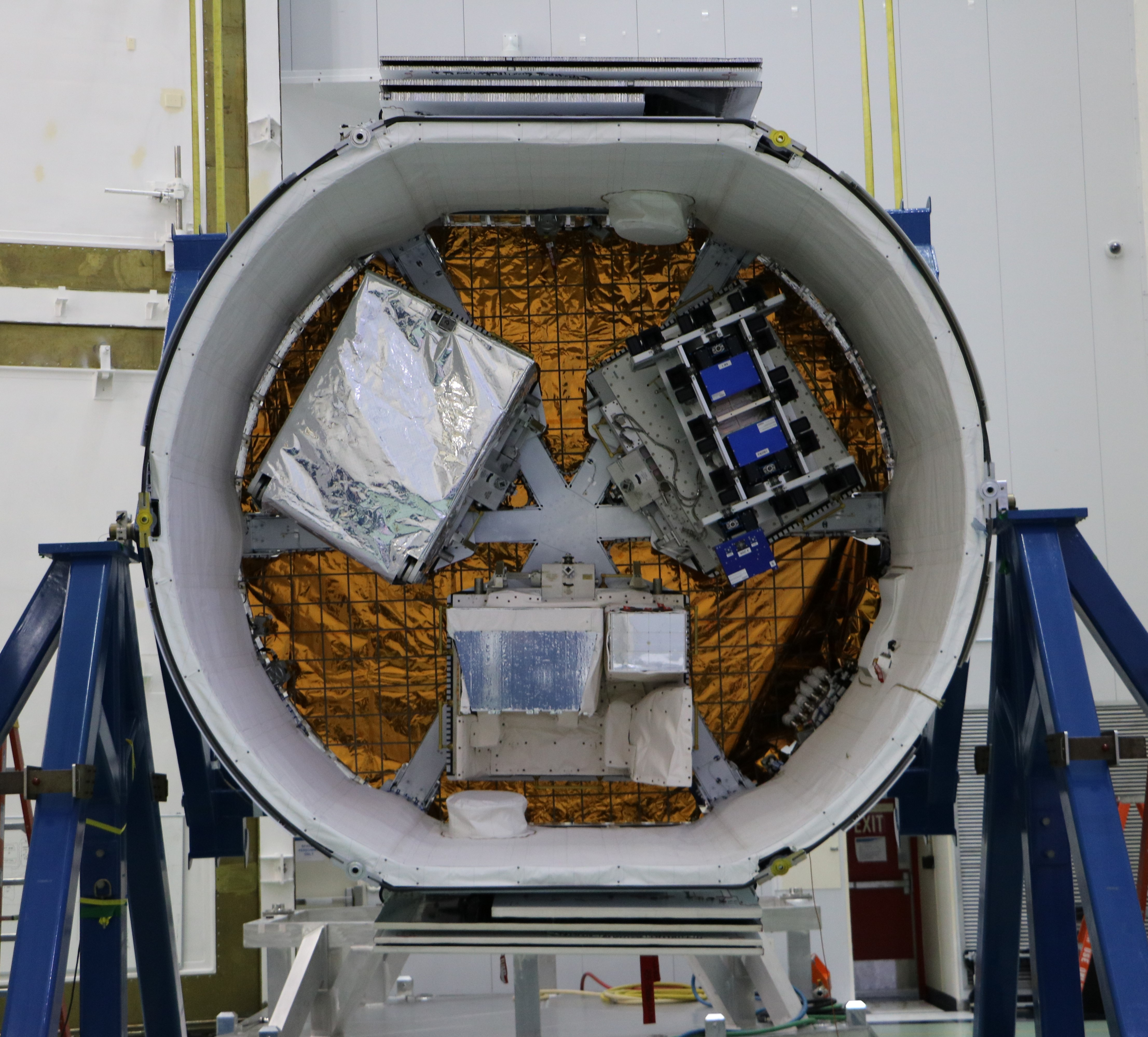 ESA’s Atmosphere-Space Interactions Monitor (ASIM), the centre-bottom box in this image, is seen here after its installation in SpaceX Dragon’s open cargo.